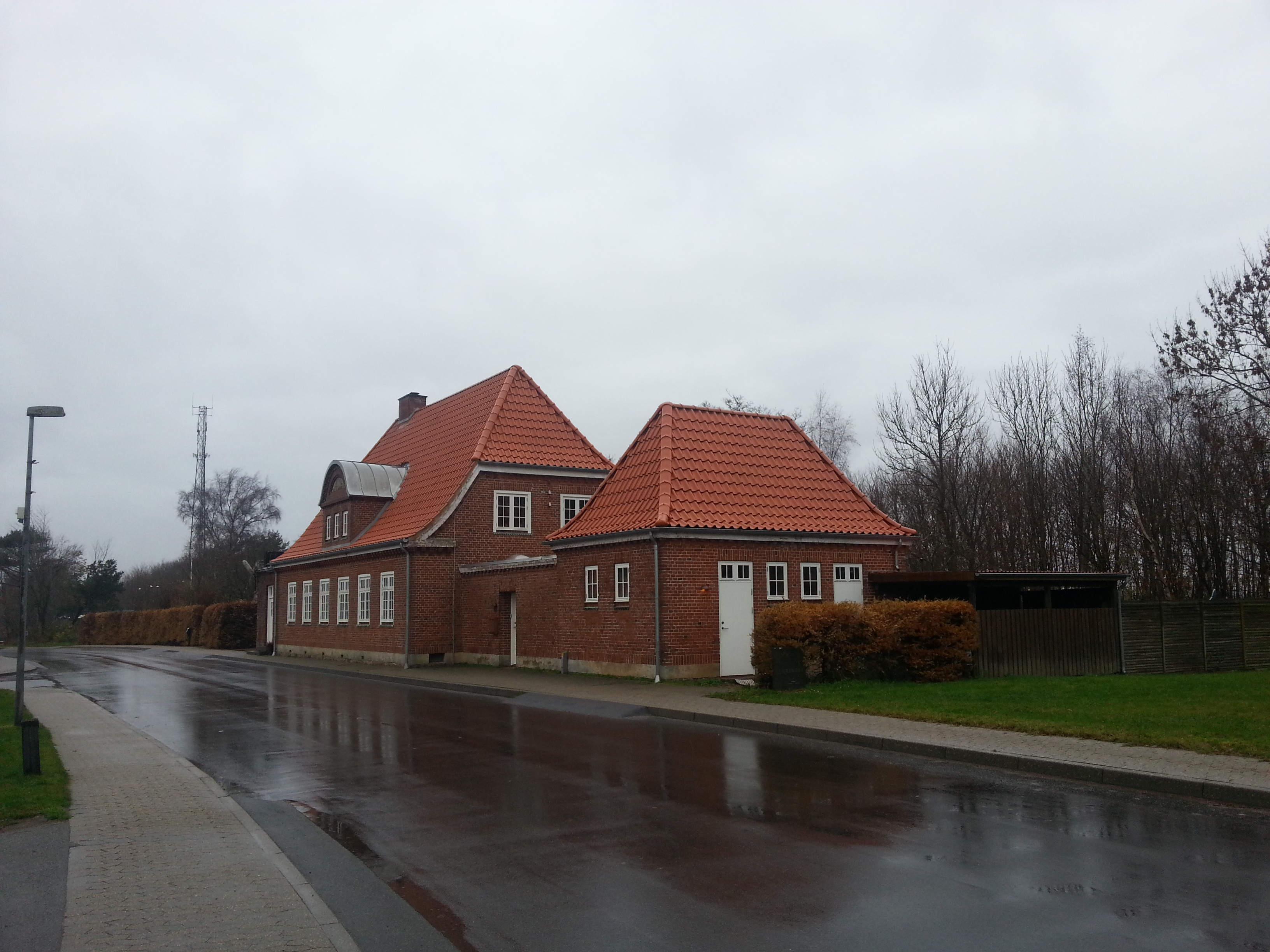 Gesten Station buildings. From 1017, from the now closed railway Troldhedebanen . Today a privately owned building.